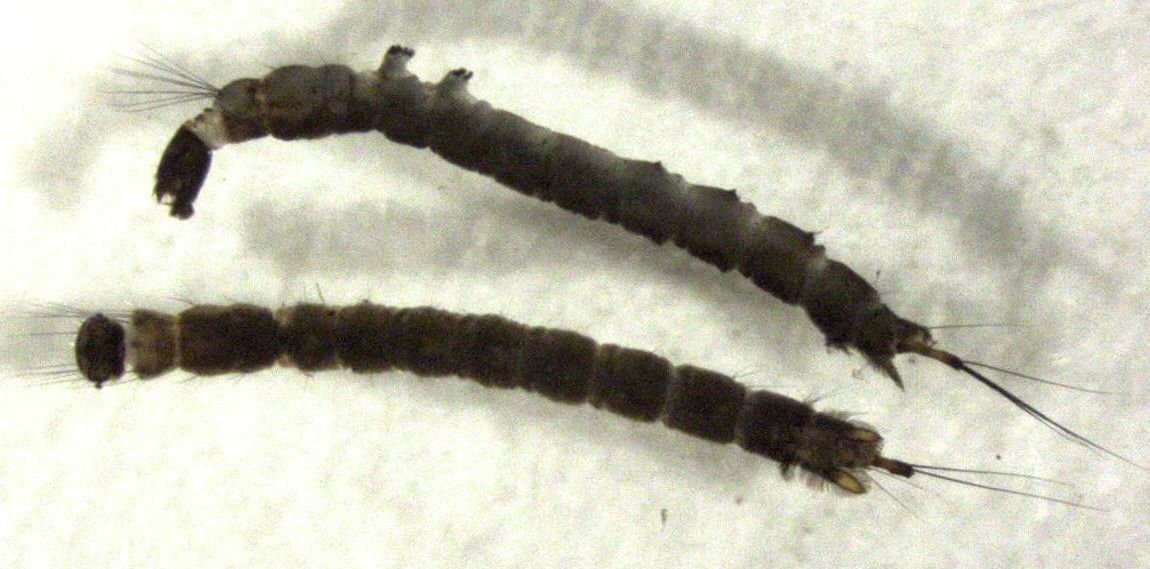 Larvae of Dixella sp. Photo taken in Tamaki Campus (Auckland, New Zealand).